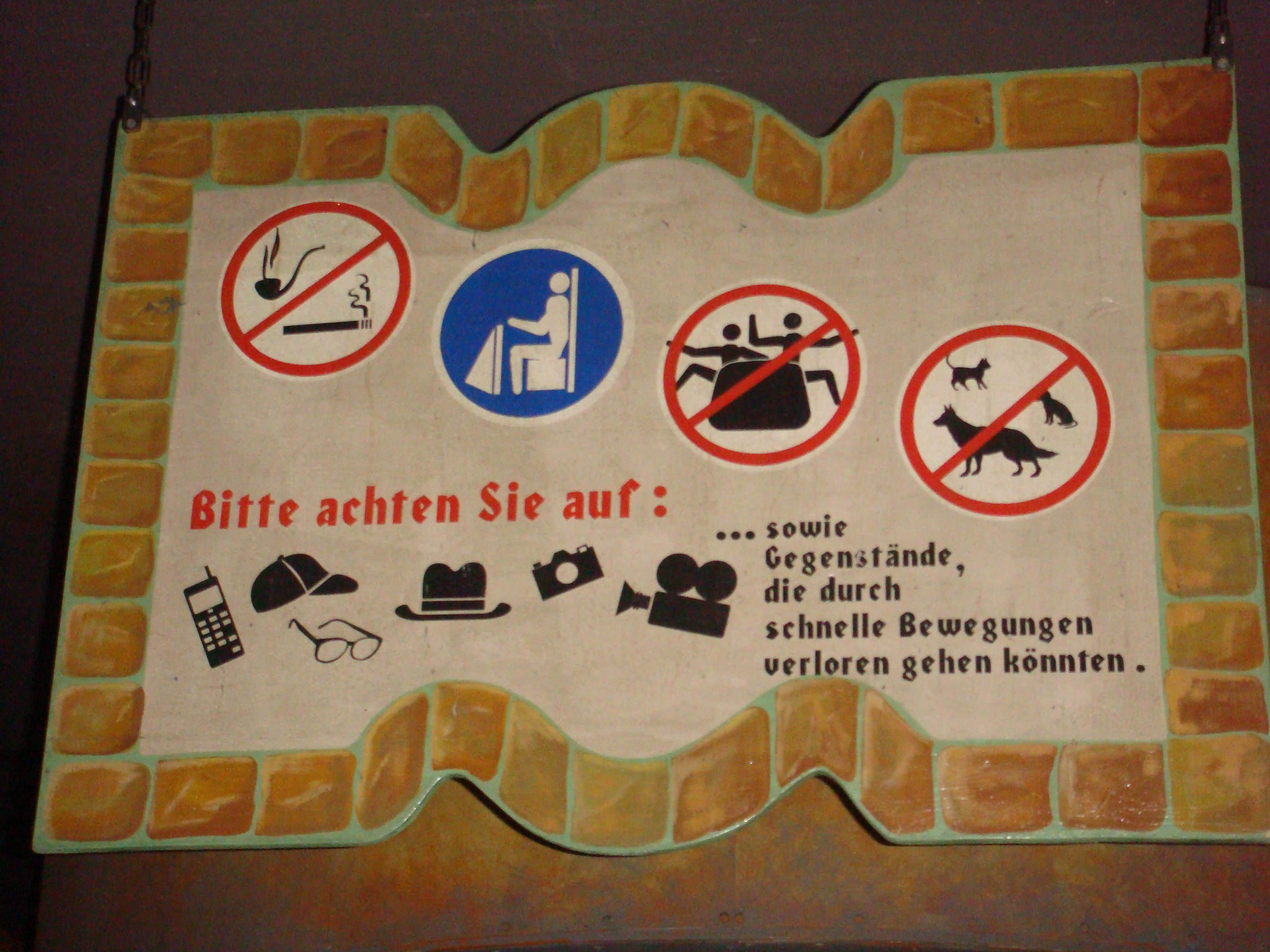 Safety sign at the rollercoasters Winjas Fear and Force in Phantasialand.